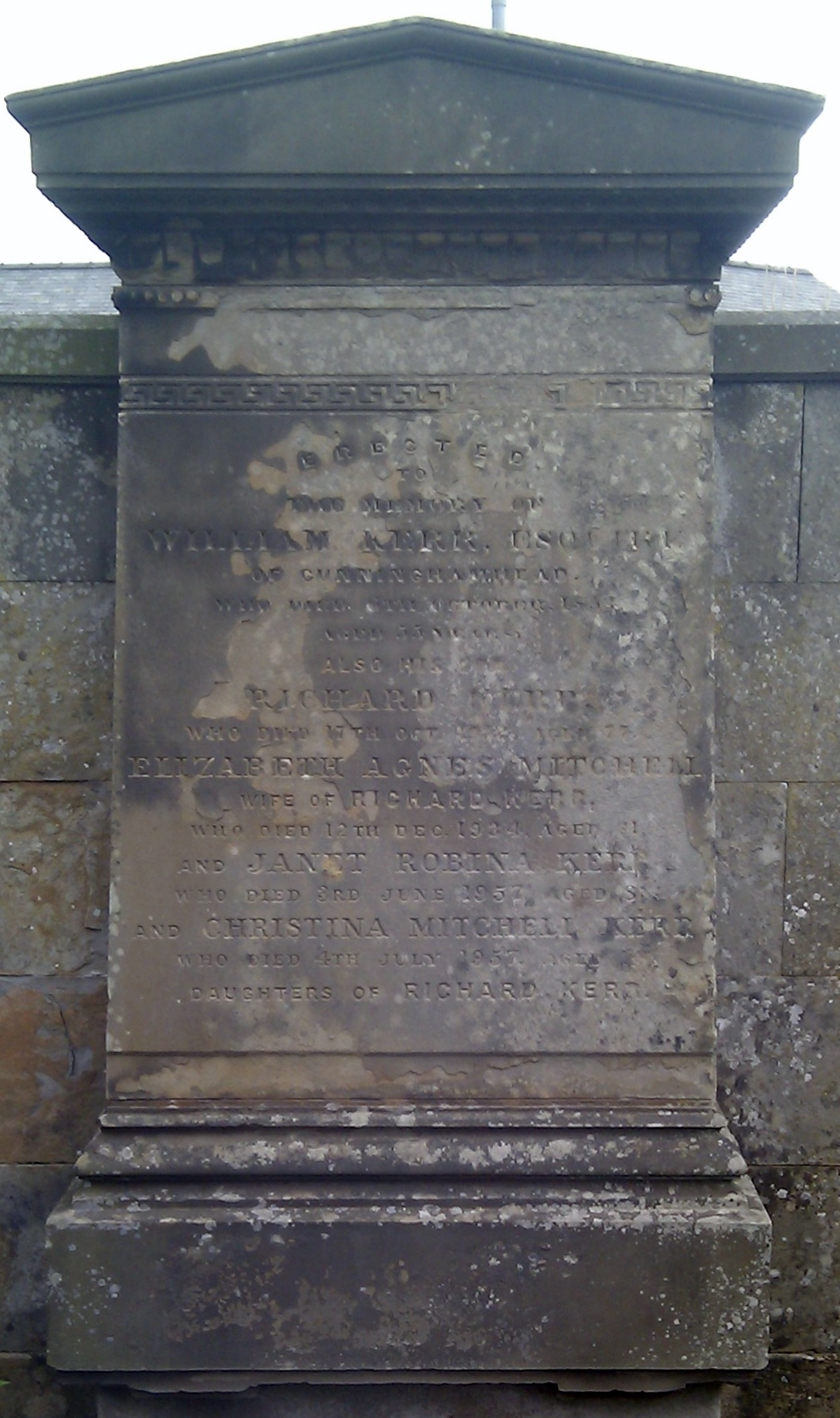 William Kerr Esq & family of Cunninghamhead, Dreghorn, Ayrshire. The 'Kerr Sisters' are remembered here as last occupants of the old Cunninghamhead House.